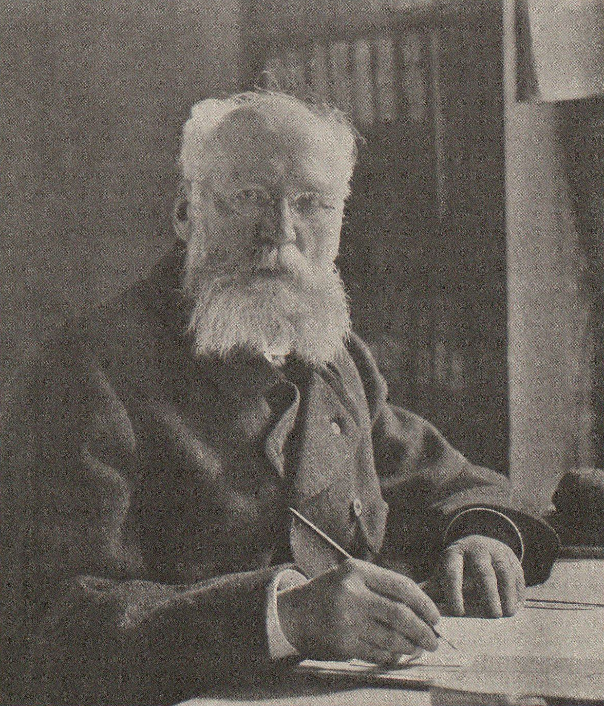 Jakob Nüesch